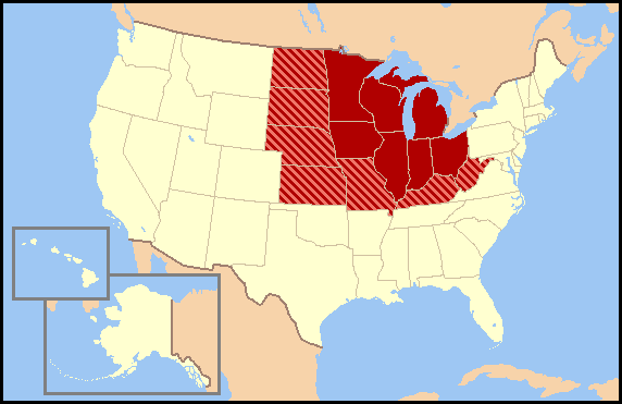 Map of Midwest.